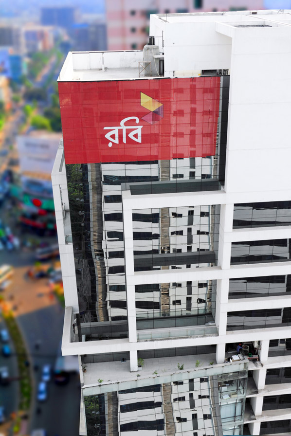 The corporate office of Robi Axiata Limited, Bangladesh